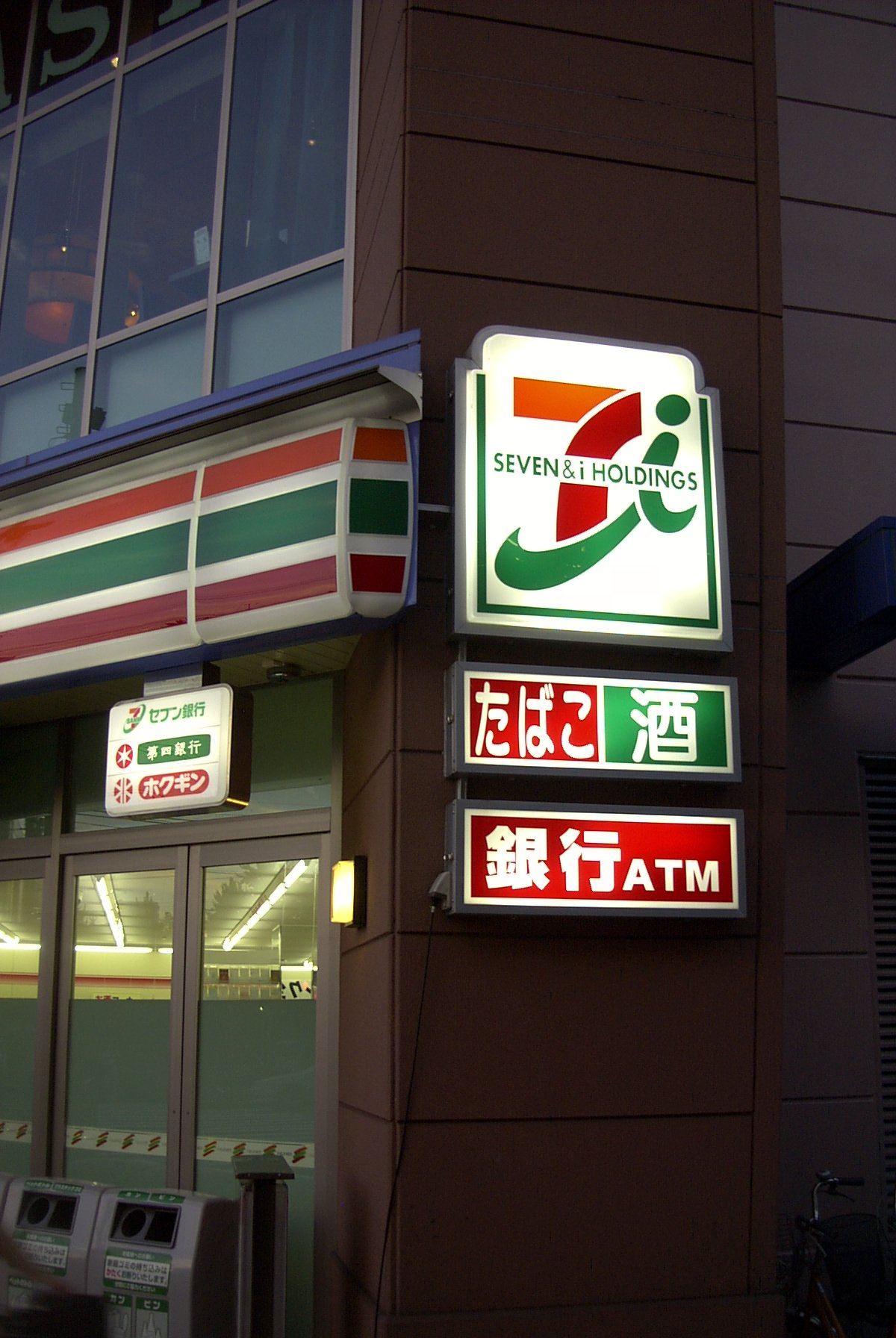 A 7-11 in Niigata, Japan.